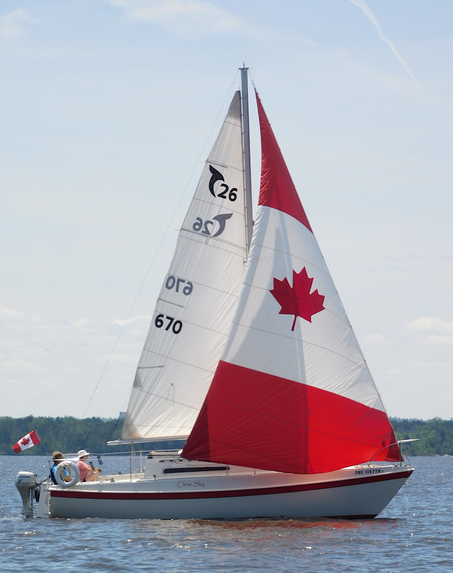 A Tanzer 26 sailboat named Clear Sky with Canadian flag genoa.